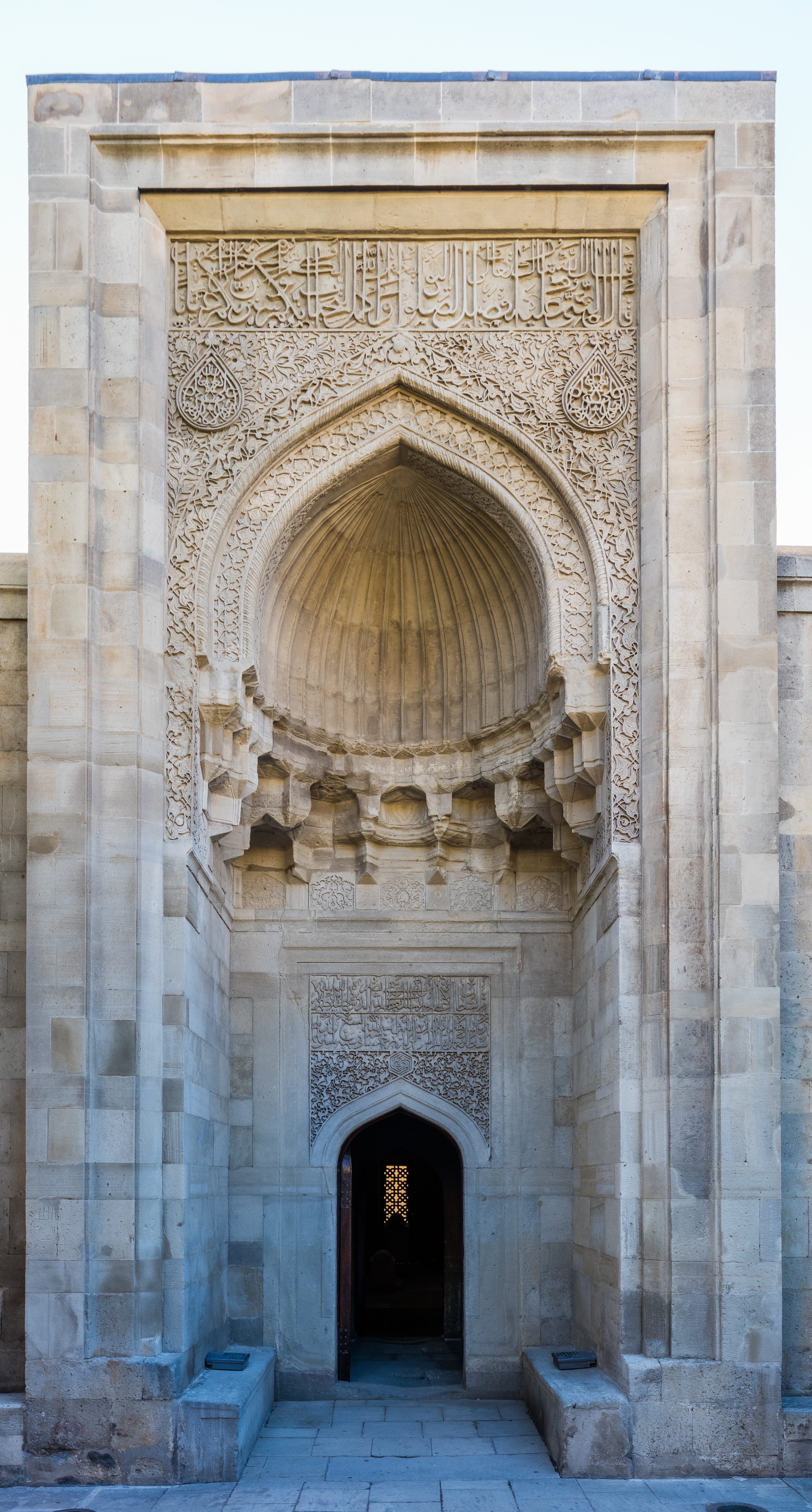 Palace of the Shirvanshahs, Baku, Azerbaijan